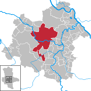 VG Staßfurt in Saxony-Anhalt - District Salzlandkreis